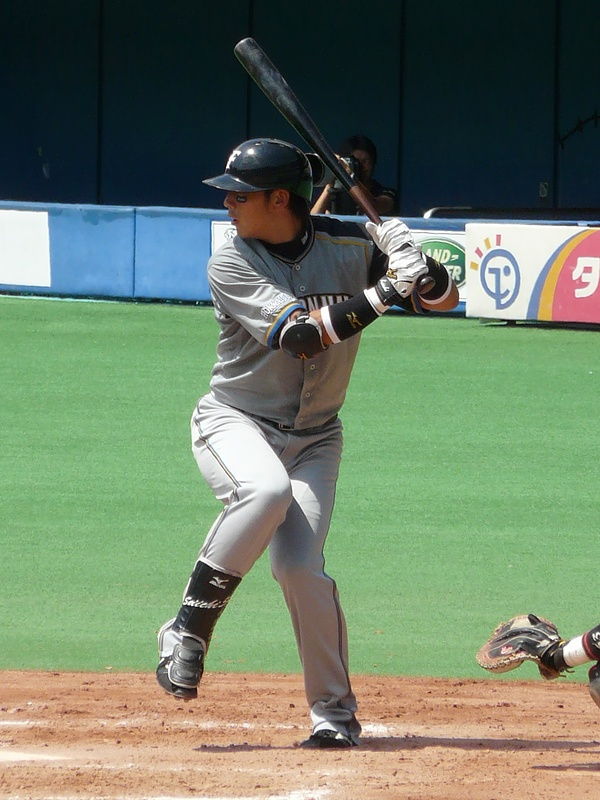 NF-Seiichi-Ohira20090825